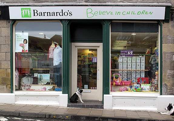 A Barnardo's charity shop in Jedburgh, Roxburghshire, Scotland